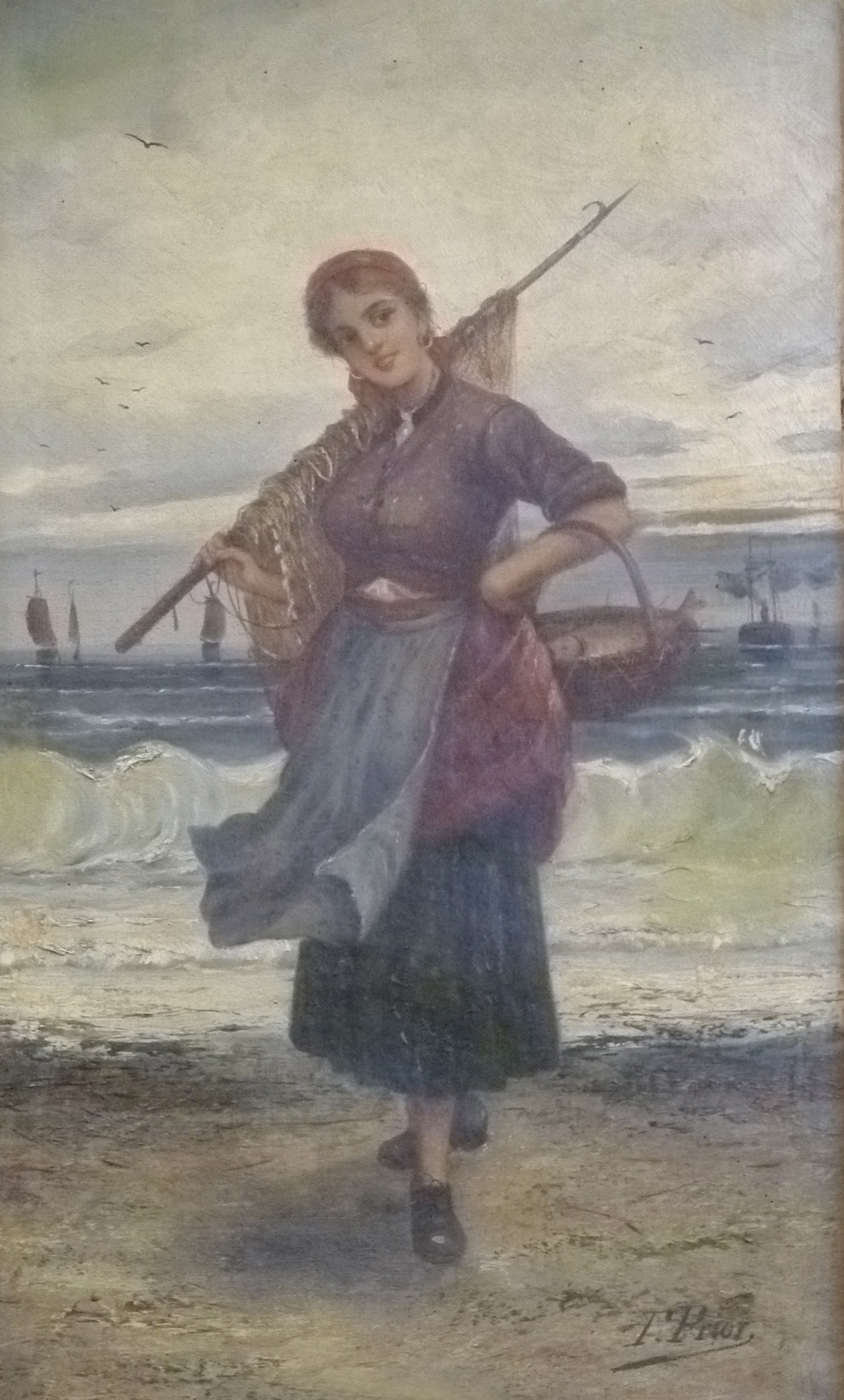 "Wife of a fisherman on the beach", oil on canvas by Thomas Prior (1809 - 1886); private collection